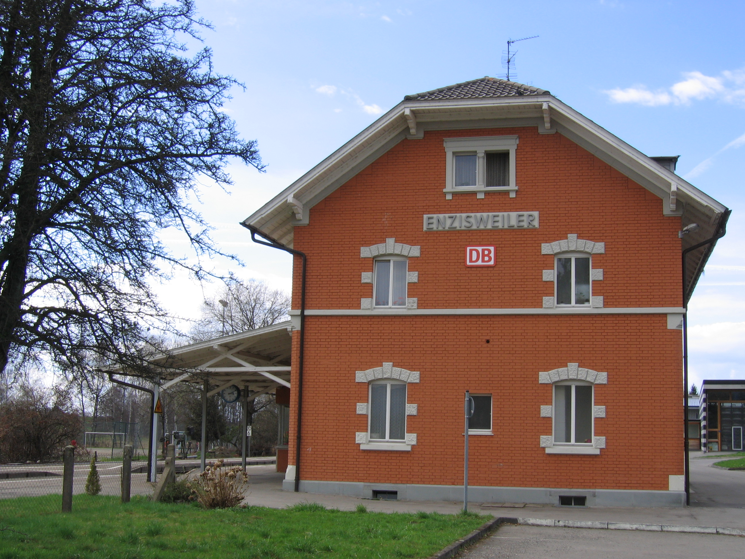 Germany - Bavaria - Lindau (district) - Bodolz - Enzisweiler: station building